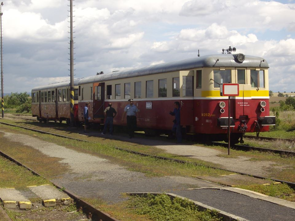 A Podřipský motoráček train of KŽC company.